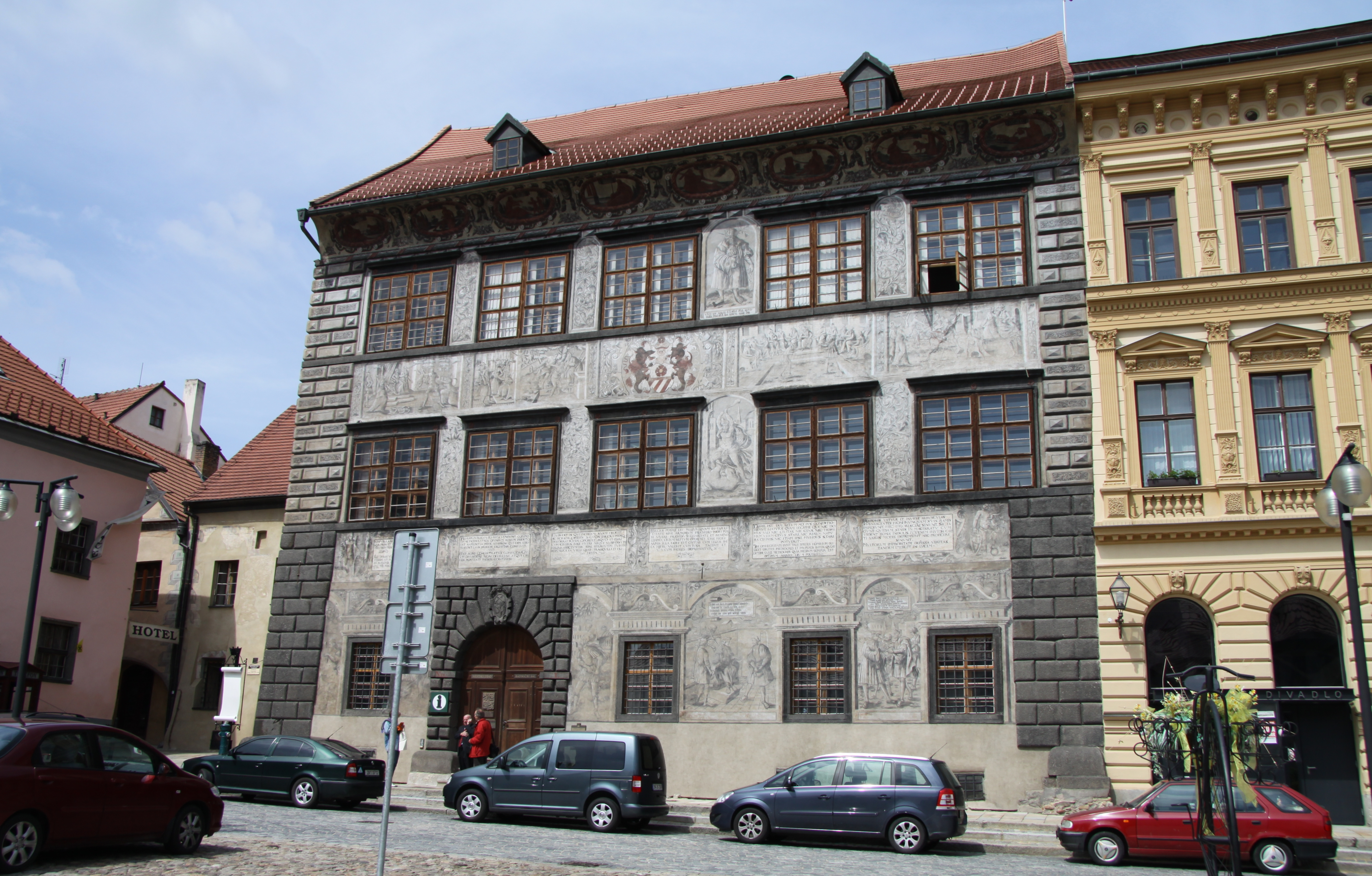 Main square in Prachatice, Prachatice District, Czech Republic